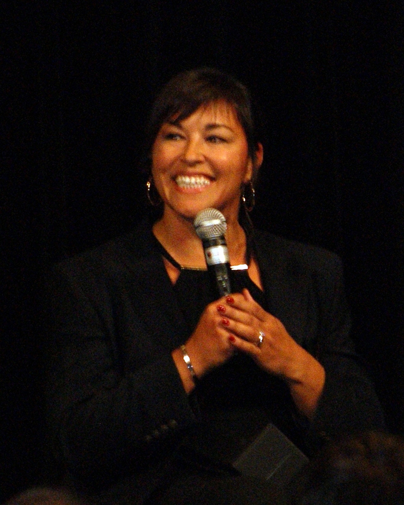 Chantal Petitclerc at Canada's Sports Hall of Fame Induction Dinner, November 10, 2010, Calgary, Alberta. Chantal Petitclerc, (born December 15, 1969 in Saint-Marc-des-Carrières, Quebec) is a Canadian wheelchair racer. She has competed in five Paralympic Games, winning 21 medals including 14 gold medals.